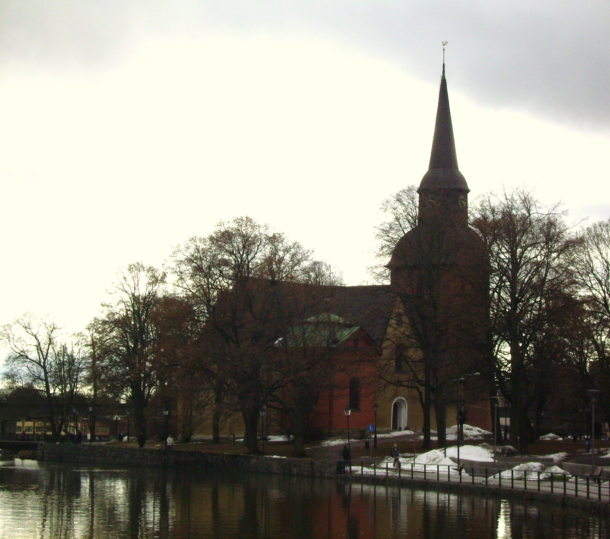 Picture of Fors kyrka in Eskilstuna